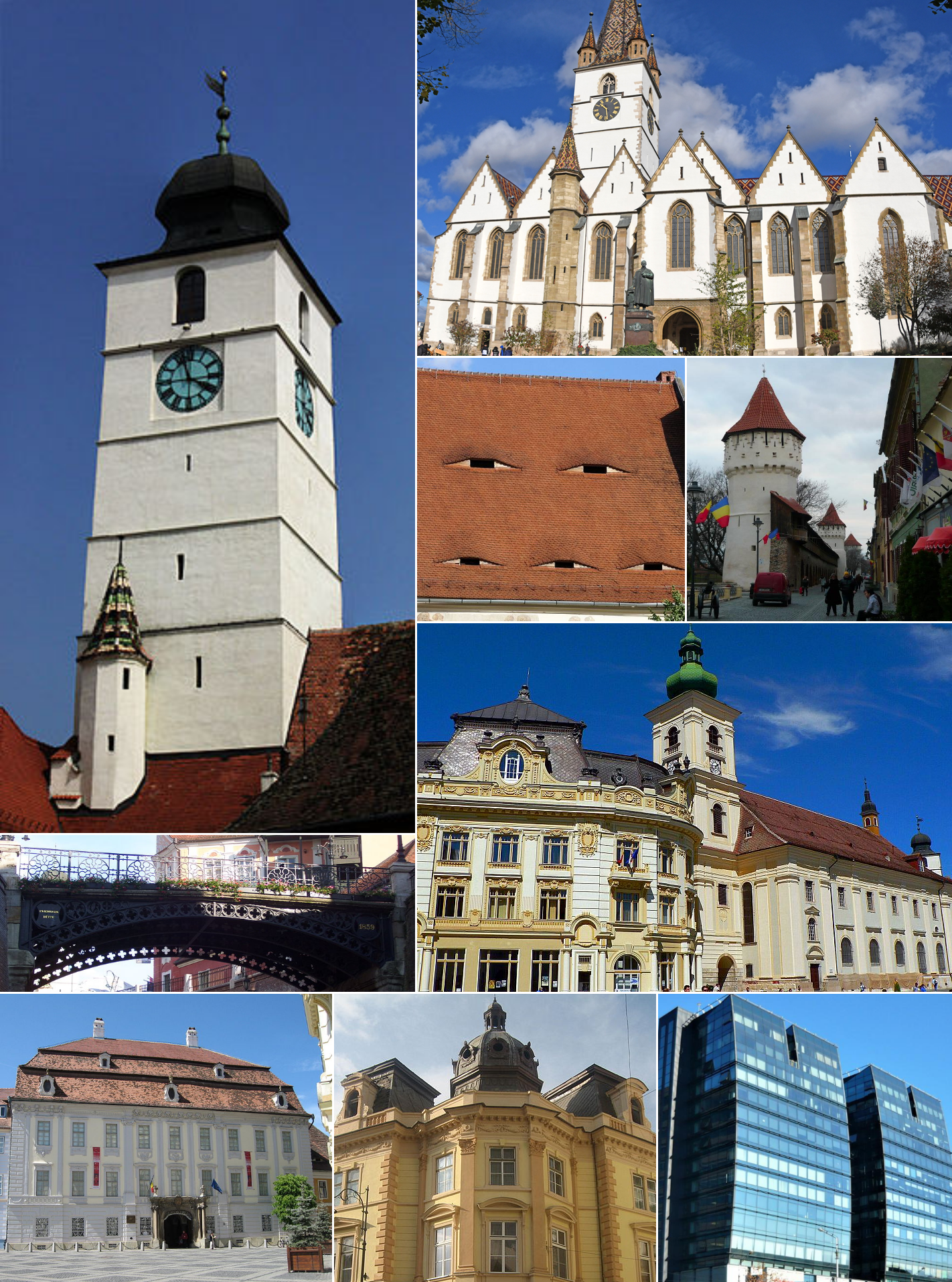 The following buildings are shown (left-to-right, top-to-bottom): Council Tower, Lutheran Cathedral, Houses with Sibiu eyes, medieval fortifications, Bridge of Lies, City Hall and Jesuit Church, Brukenthal Palace, a palace with a dome, some modern high-rise buildings.